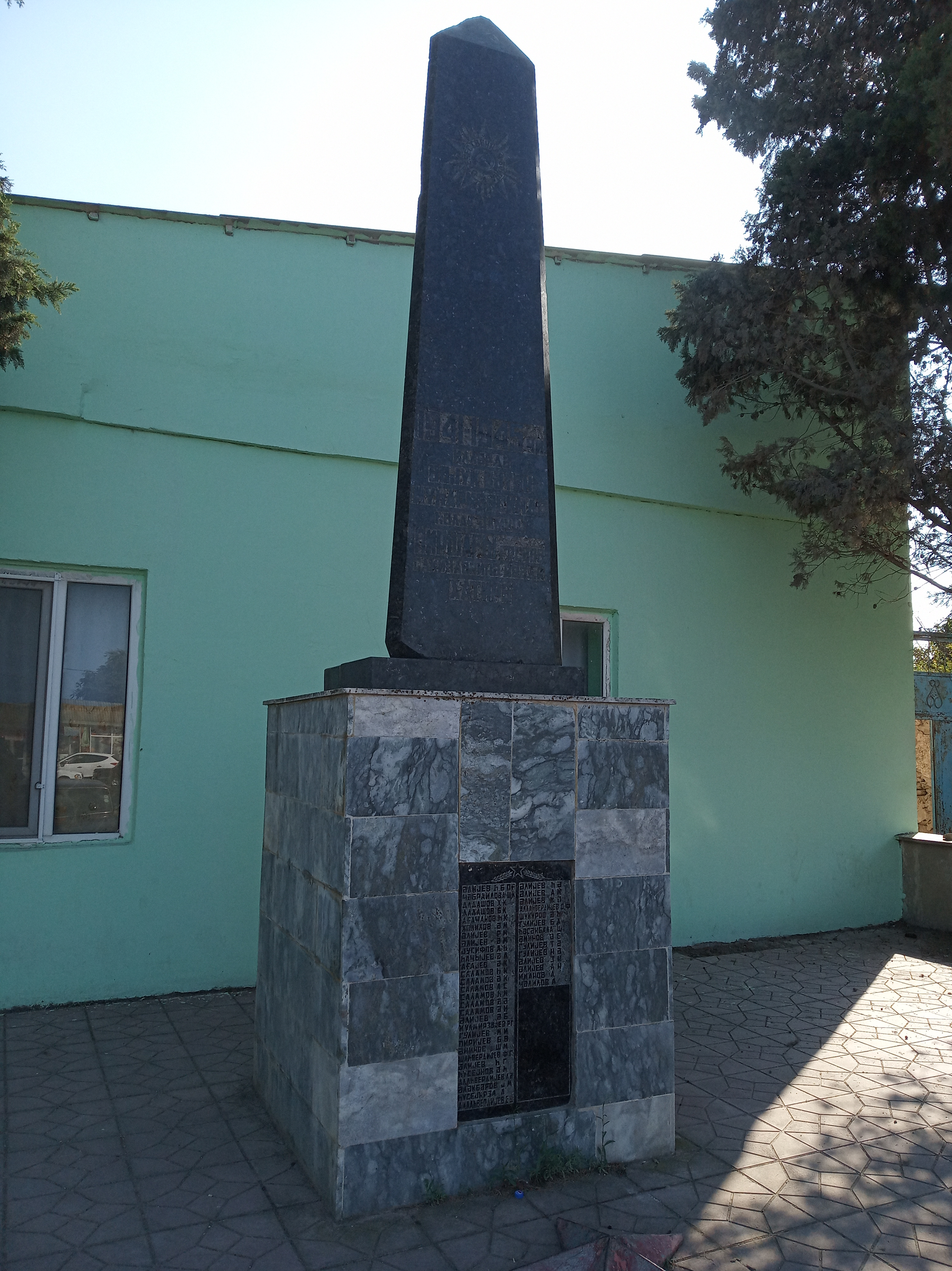 WWII memoarial in Pirshagi